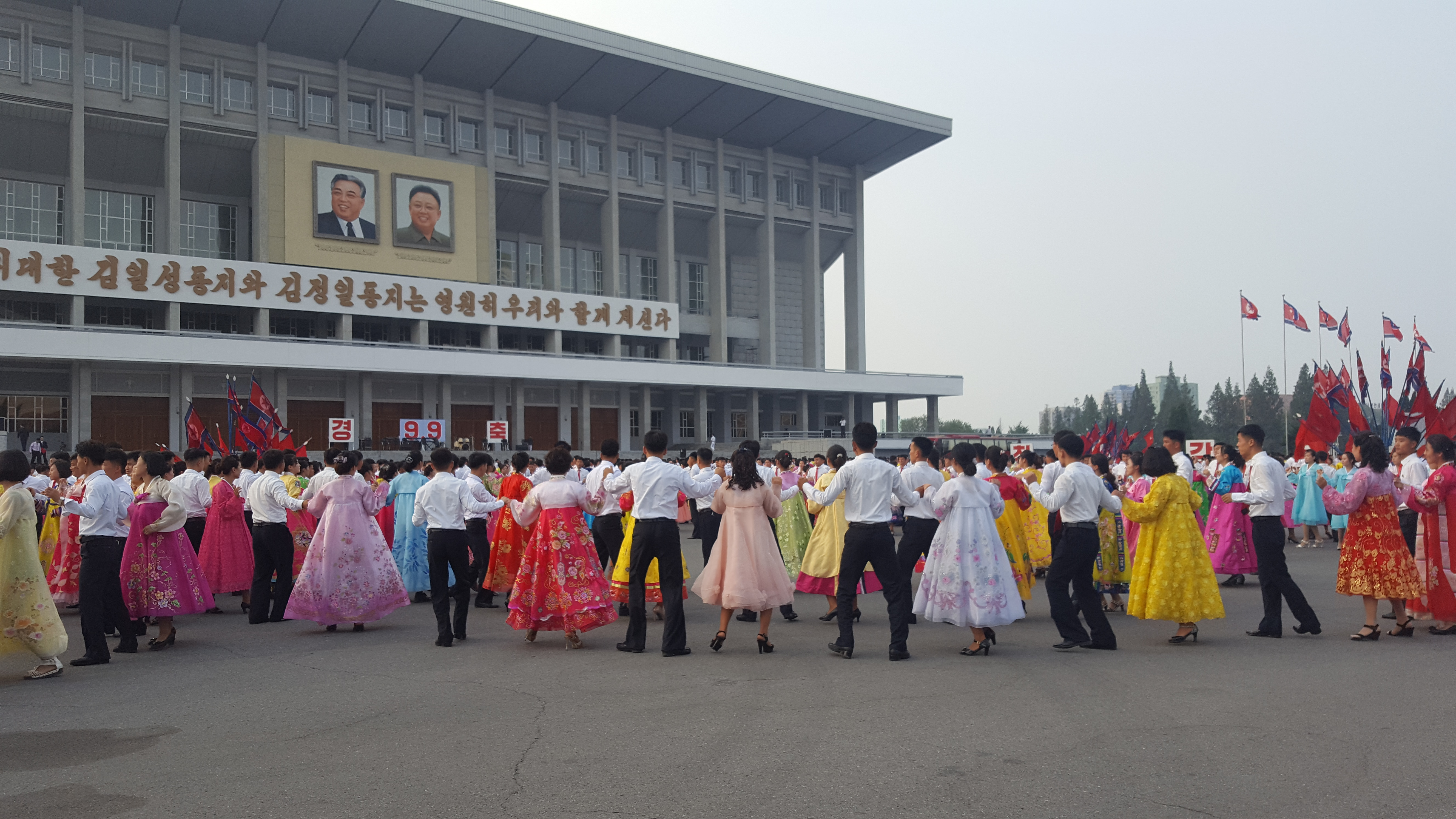 University students danced on the 69th founding anniversary of the DPRK (9/9/2017) outside Pyongyang Indoor Stadium